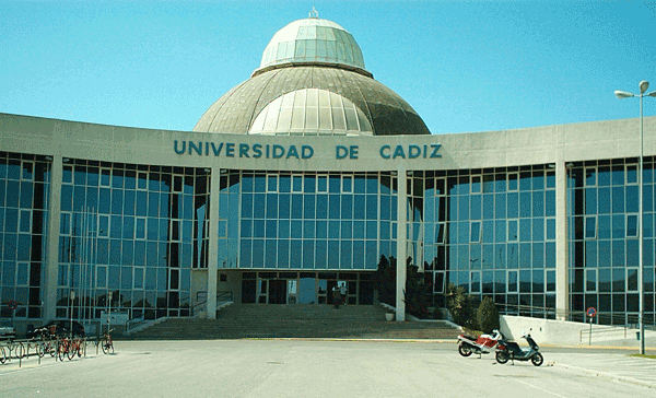 Centro Andaluz Superior de Estudios Marinos, in the University of Cádiz